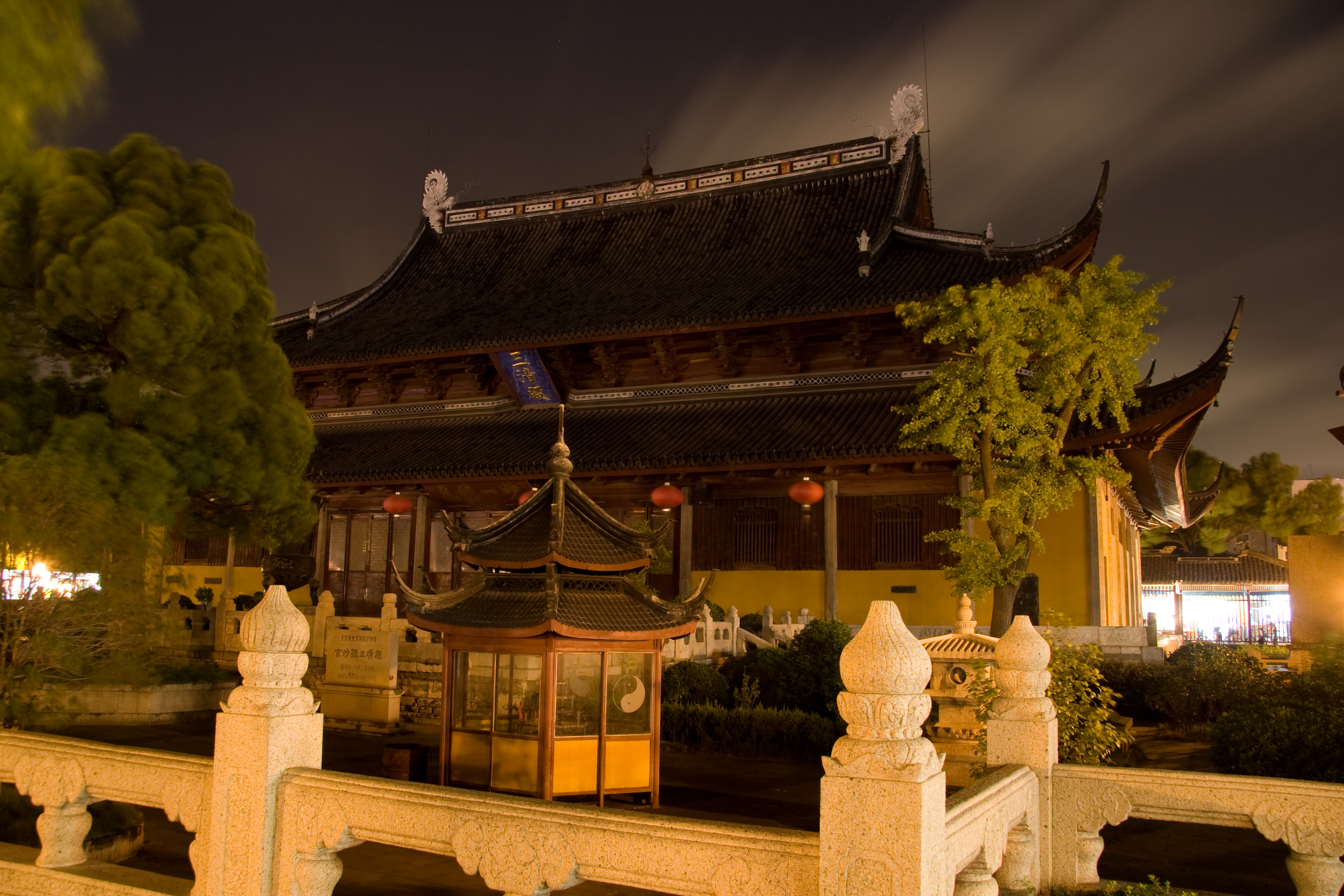 Xuanmiao Guan (Temple of Mystery) in Suzhou, China